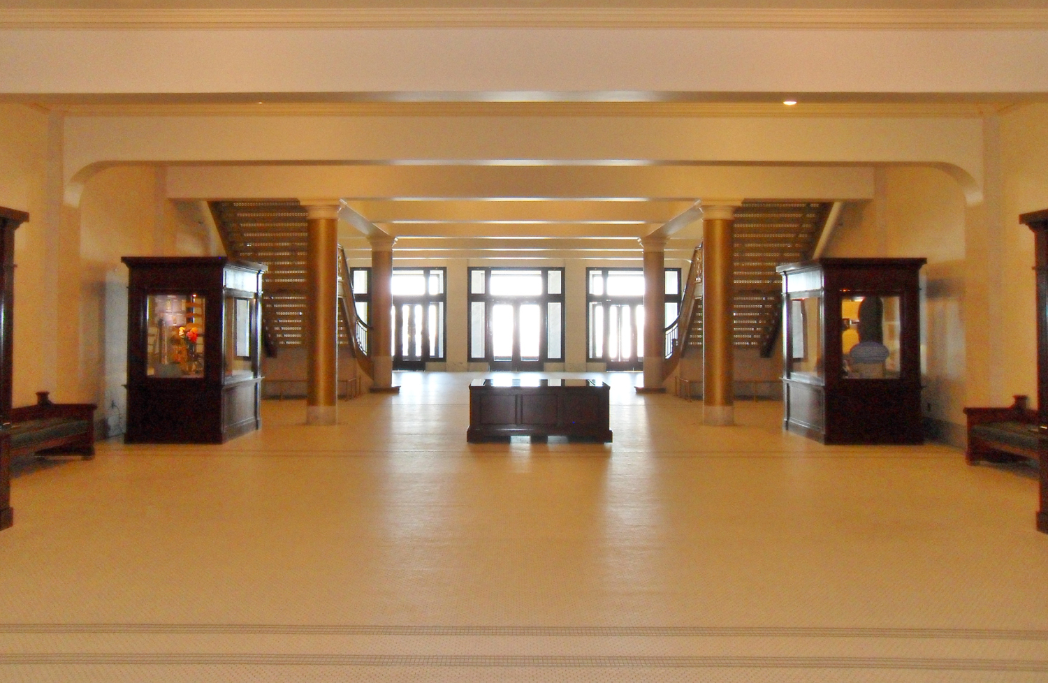 The first floor of the Utah State Capitol, looking east towards the visitors entrance.